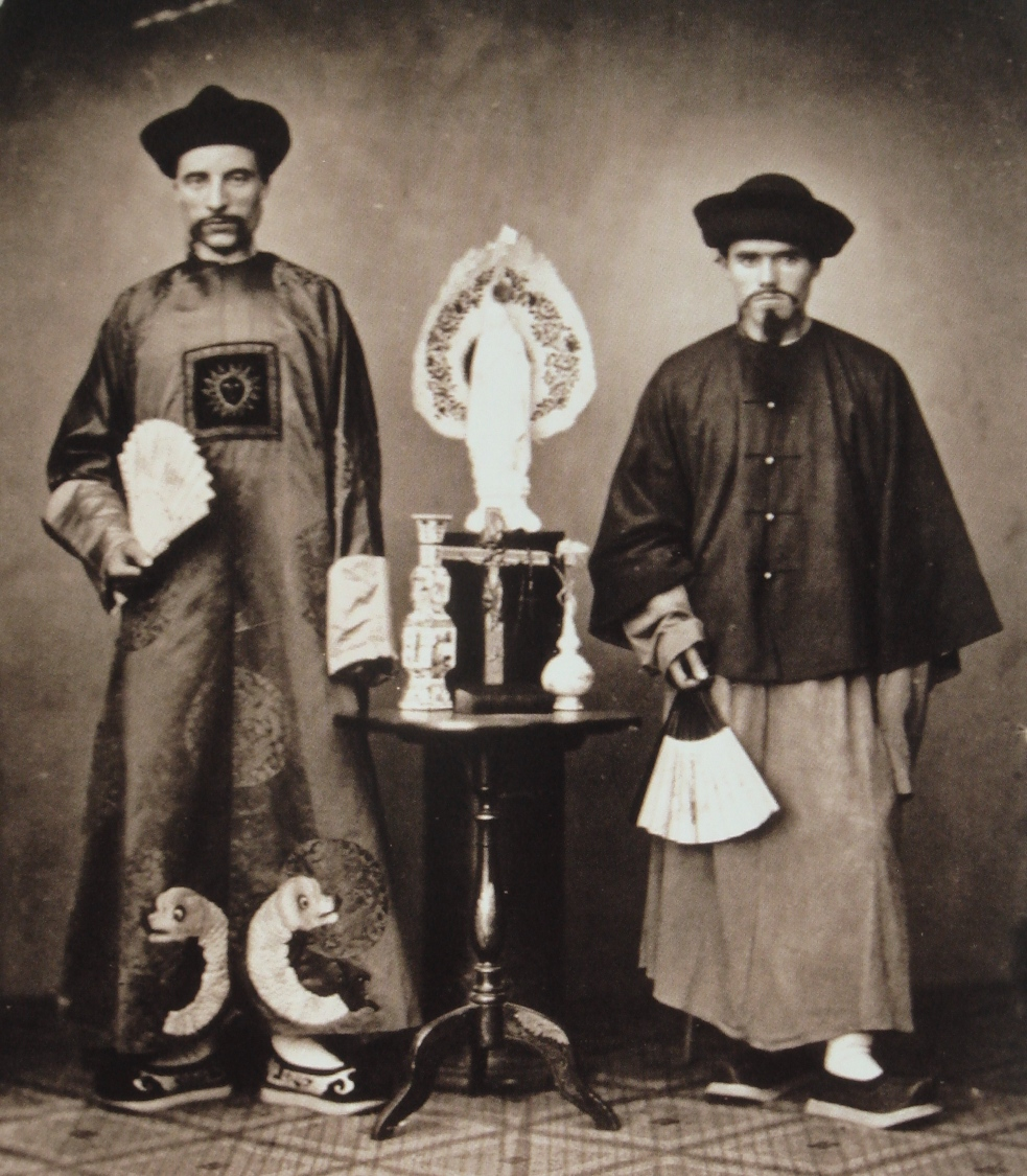 MEP_Fathers_in_China_1860